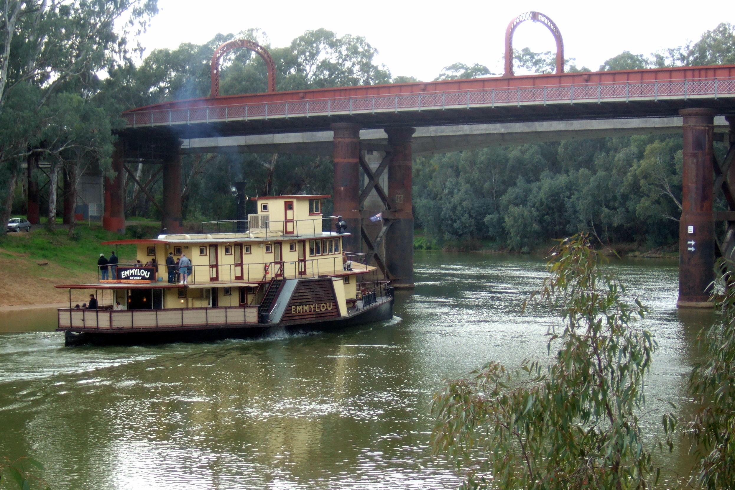 The paddlesteamer "Emmylou" passing beneath the Echuca-Moama rail bridge.[1]